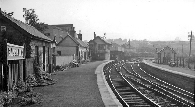 Bassaleg Station. View westward, towards Machen, Caerphilly, Merthyr etc.; former Brecon & Merthyr line, Newport - Brecon, closed 31/12/62, although this section remains open to Goods as far as Machen Quarry.